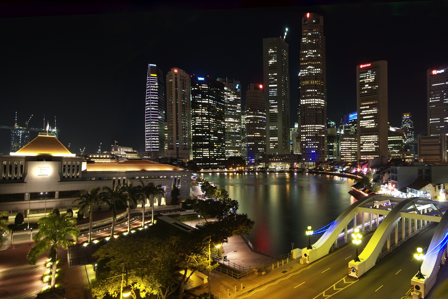 This is the other half of Parliament House which I posted earlier today. Across the river is Boat Quay & The Central Business District. Taken at the same spot as where I took the earlier shot at High Street Centre. it was unfortunate that I couldn't arrive on time for the blue hour. Well maybe the next round... pp: I have cheated slightly with photoshop to get the Elgin bridge in full. The original shot was cut off near right corners (see original). Another shot was used to blend in but taken from a different angle to show more of the river. Made the bridge slightly bigger to give some depth to the scene. As usual finish off with light sharpening & contrast Not a HDR process